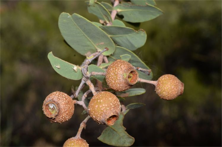 Fruit of Corymbia setosa 80km north-west of Barcaldine, Queensland